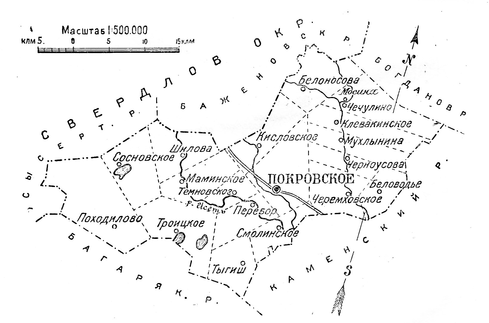 Map of Pokrovskiy rayon (Shadrinskiy okrug of Uralic Region of RSFSR) in 1928.